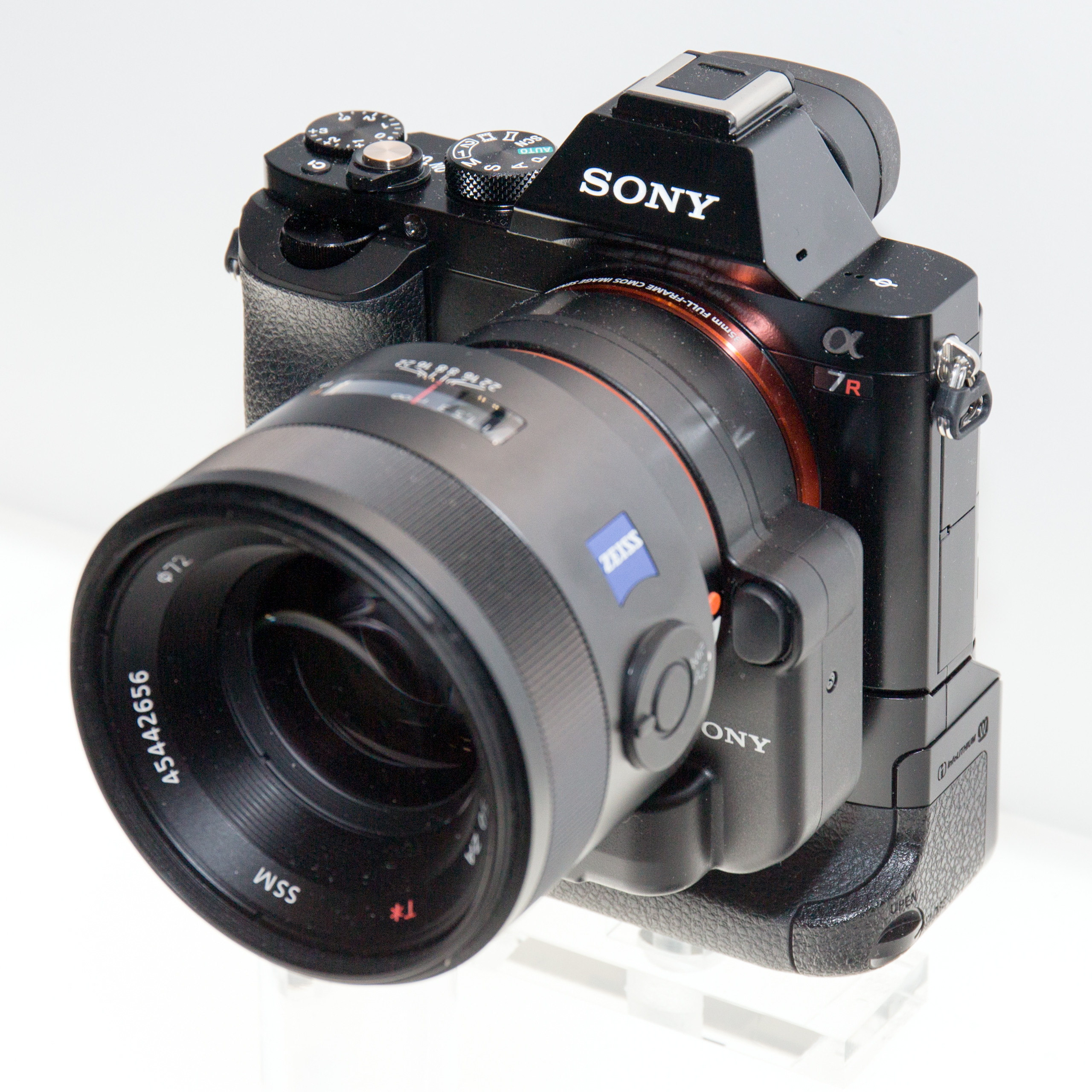 CP+ 2014: 2013 Sony Alpha 7R